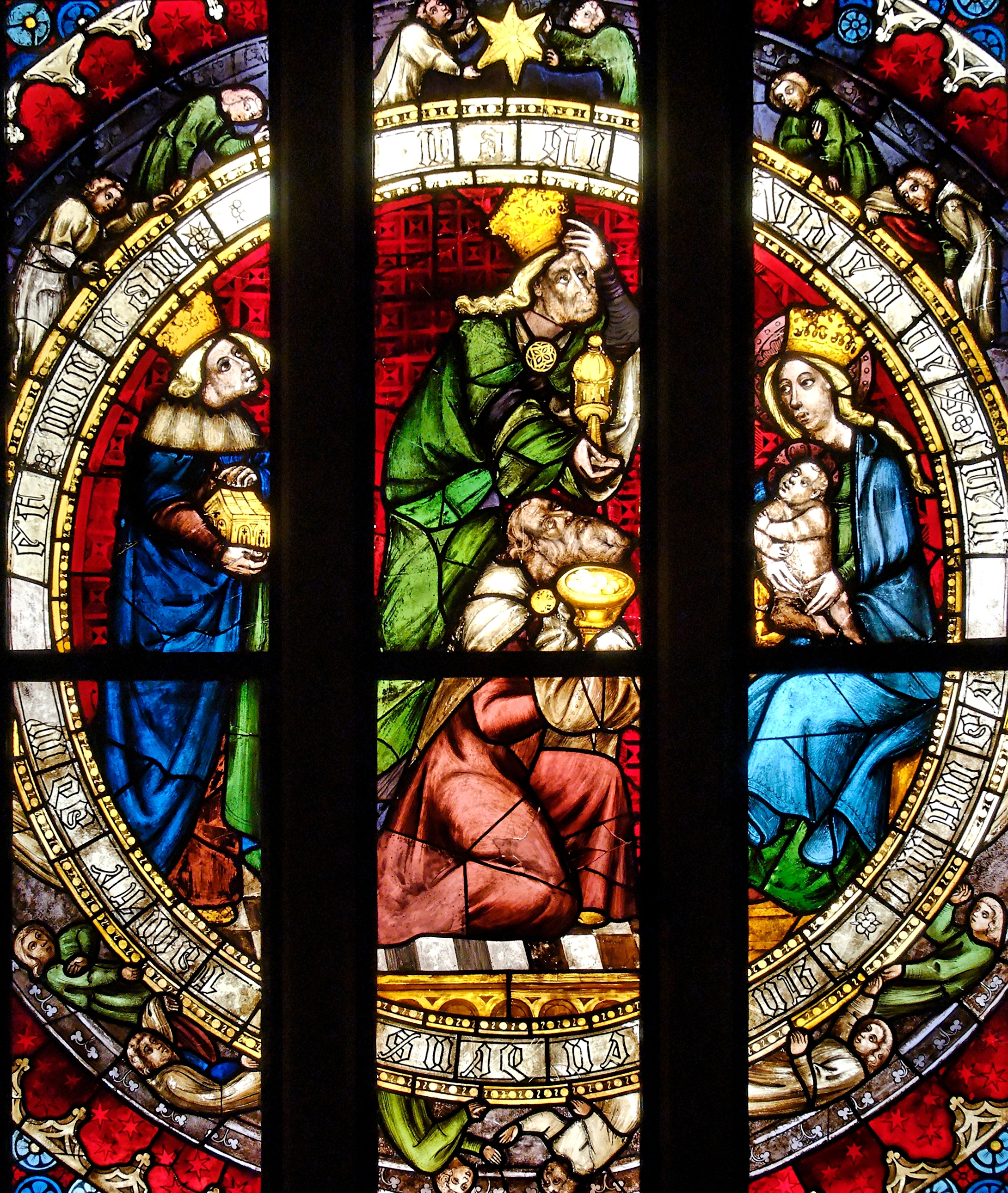 Adoration of the Magi, detail. Stained glass window, Southern Germany, ca. 1400.